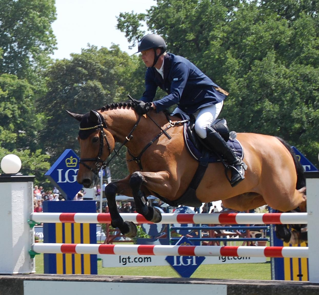 German rider Mario Stevens with Mac Kinley, "Championat von Hamburg", CSI 5* Hamburg 2011